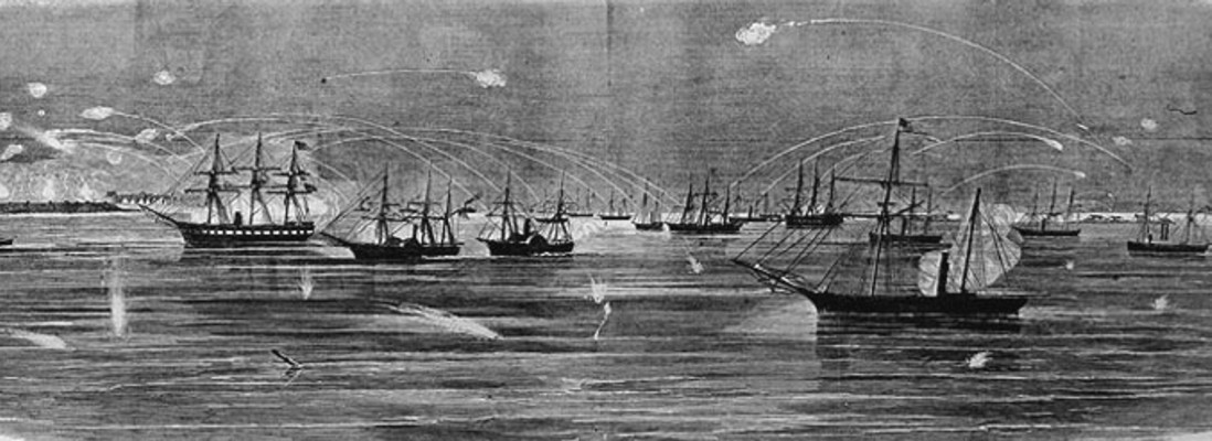 Engraving published in "Harper's Weekly", July-December 1861 volume, pages 760-761. It depicts Federal warships, under Flag Officer Samuel F. DuPont, USN, bombarding Fort Beauregard (at right) and Fort Walker (at left). The Confederate squadron commanded by Commodore Josiah Tattnall is in the left center distance. Subjects identified below the image bottom are (from left): tug Mercury, Fort Walker, USS Wabash (DuPont's flagship), Screamer (?), USS Susquehanna, CSS Huntsville, Commo. Tattnall, USS Bienville, USS Pembina, USS Seneca, USS Ottawa, USS Unadilla, USS Pawnee, USS Mohican, USS Isaac Smith, USS Curlew, USS Vandalia, USS Penguin, USS Pocahontas, USS Seminole, Fort Beauregard, USS R.B. Forbes and "Rebel Camp".